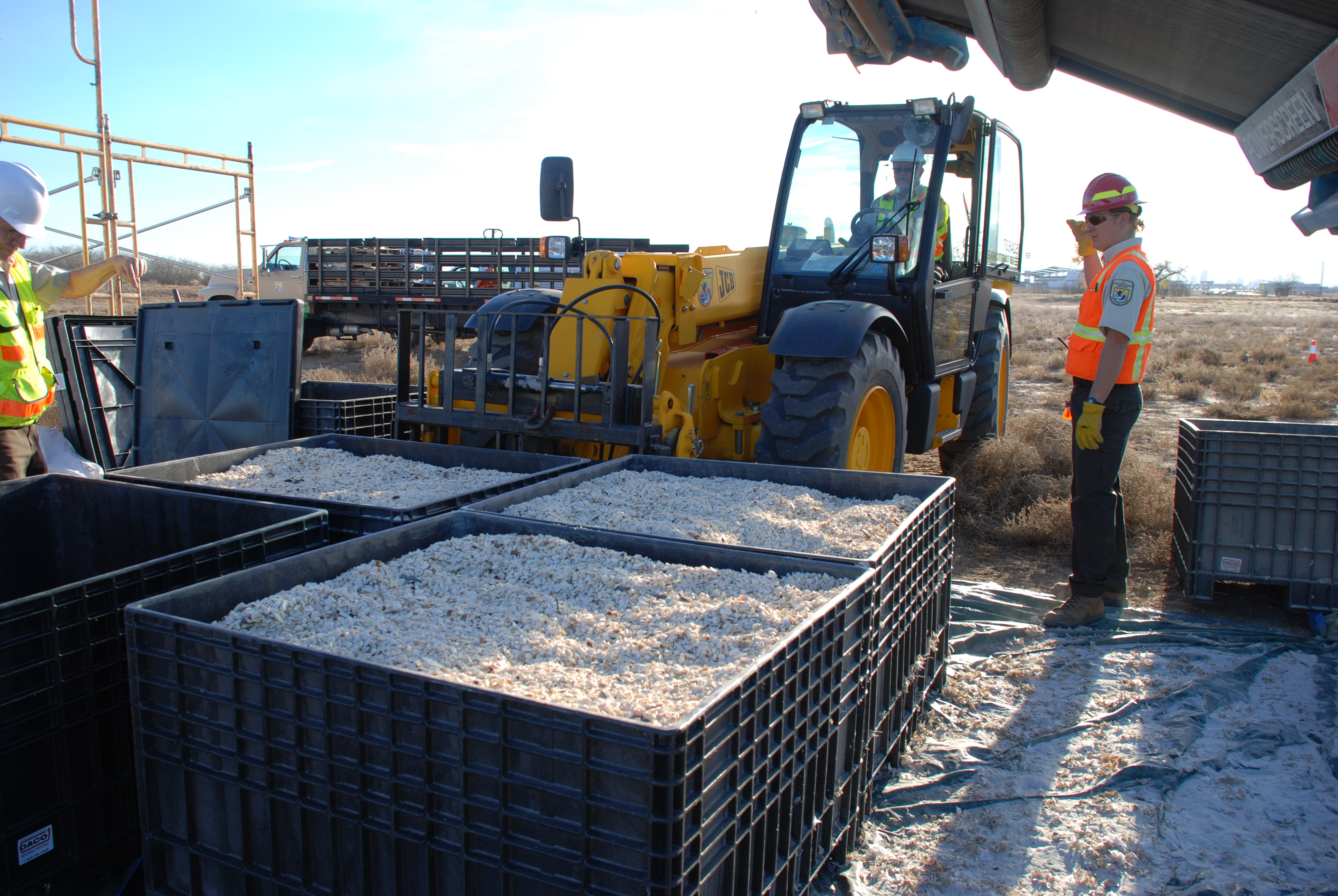 Photo Credit: Kate Miyamoto / USFWS USFWS ivory crush at Rocky Mountain Arsenal National Wildlife Refuge on November 14, 2013